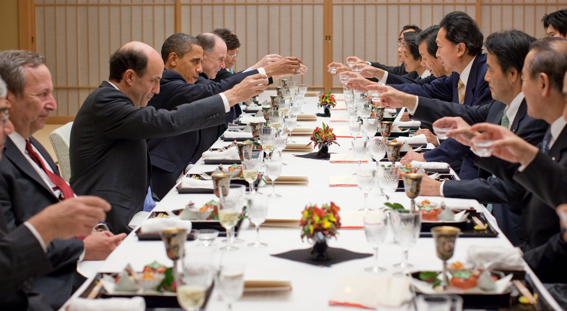 Barack Obama, President, and the United States delegation toasted with Yukio Hatoyama, Prime Minister, and the Japanese delegation at the Prime Minister's Official Residence in Chiyoda Ward, Tōkyō Metropolis on November 13, 2009.